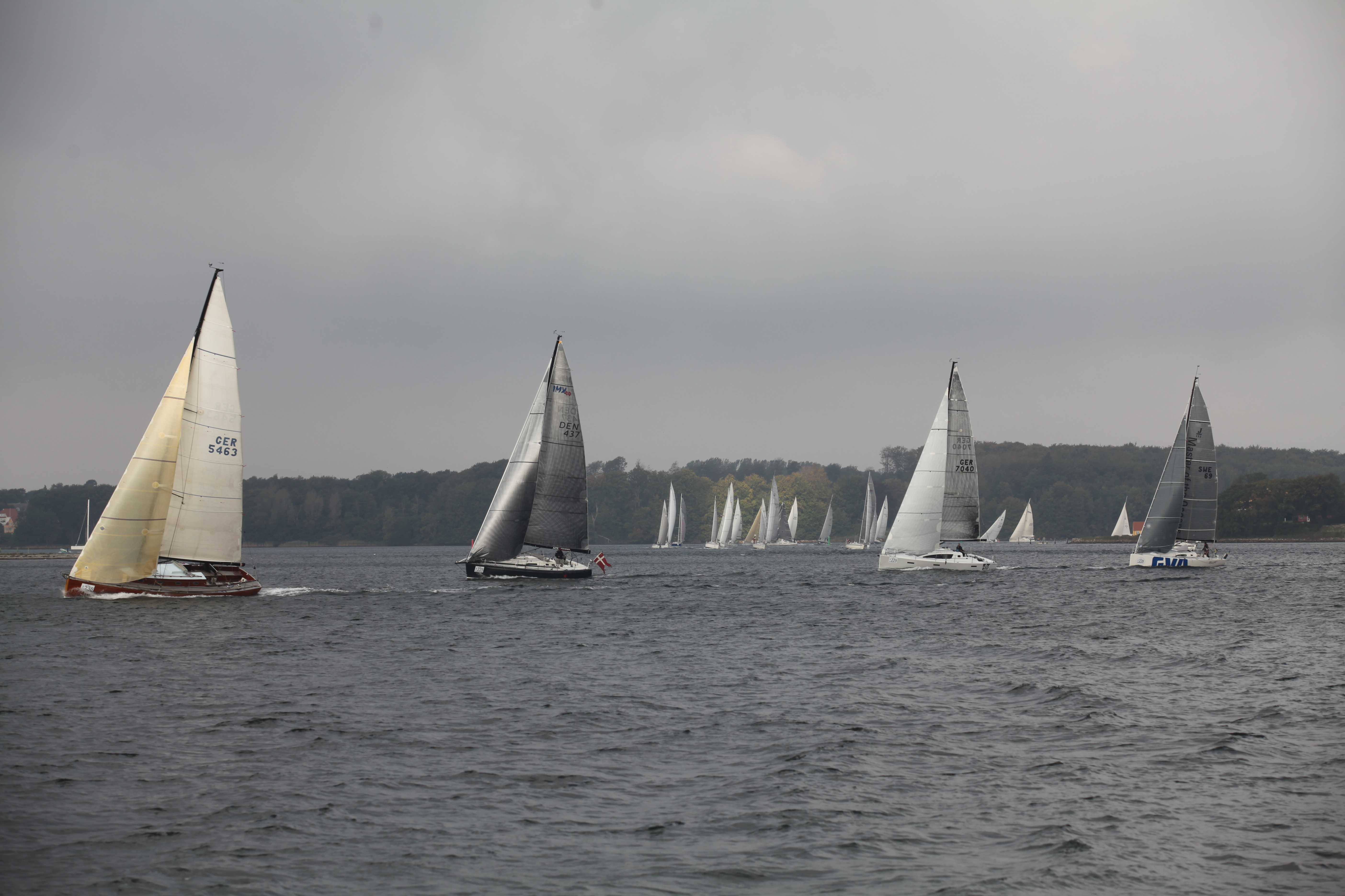 From start 4. Category 4: Keelboats Large in the eastern part of Svendborg Sound.